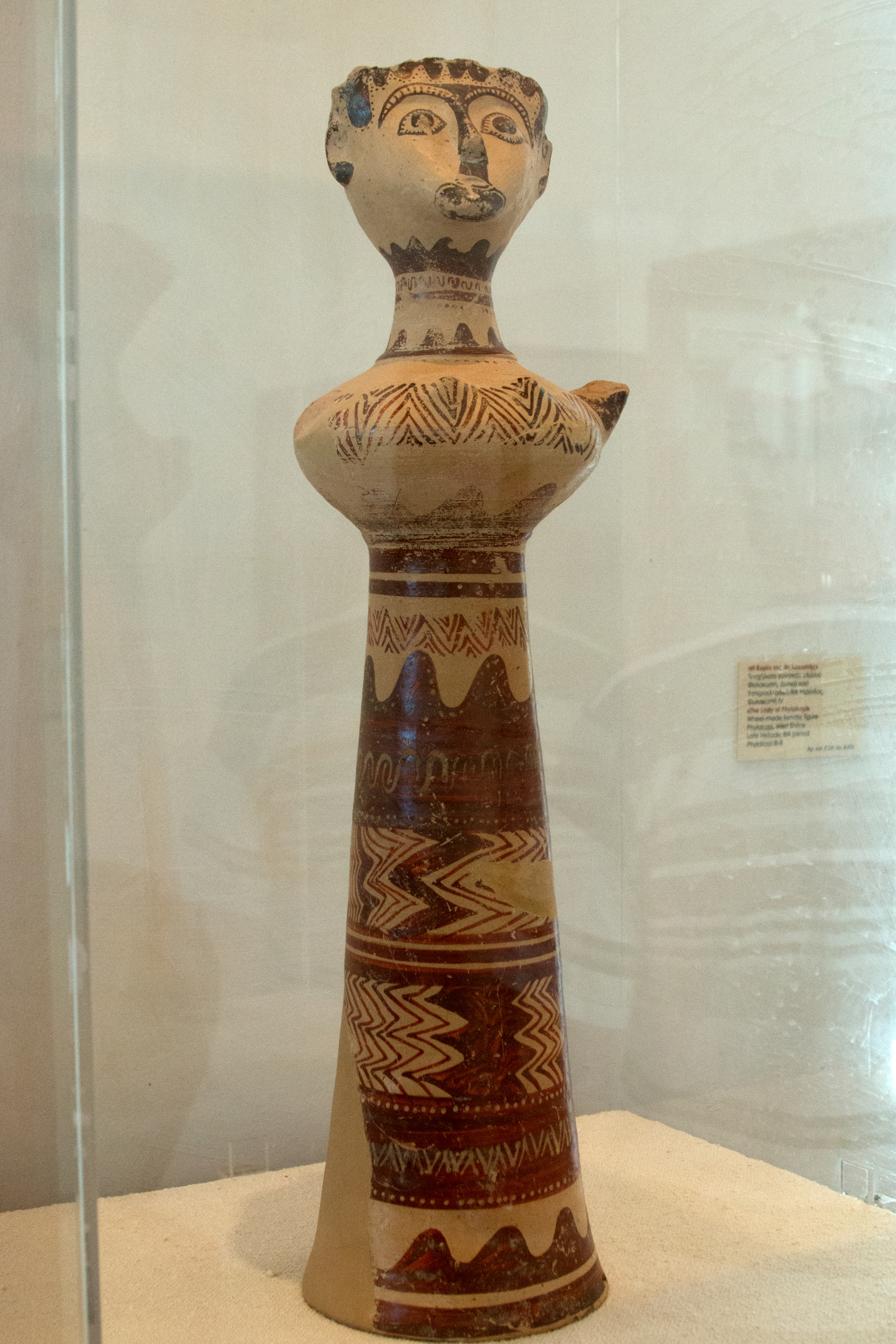 The Lady of Phylakopi. Wheel-made female figurine of a goddess or priestess from West Shrine in Phylakopi. Height 45 cm. Late Helladic III A period, Phylakopi III, probably 14th century BC. Archaeological Museum of Milos, Cat. no. B 655. Discovered by Colin Renfrew, Excavations 1974-77.